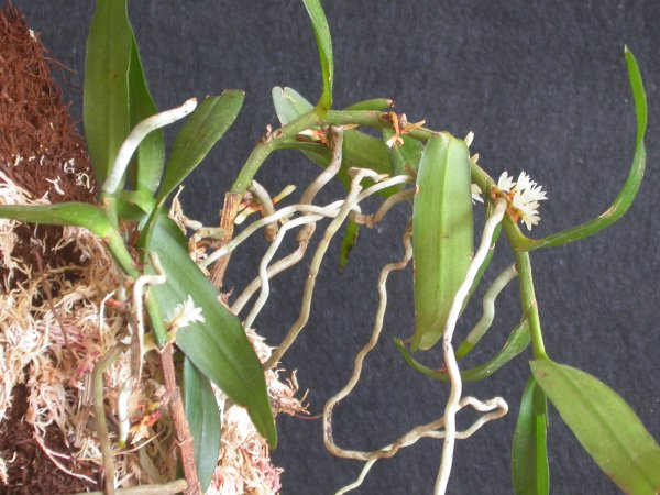 Campylocentrum micranthum - specimen from Brazil